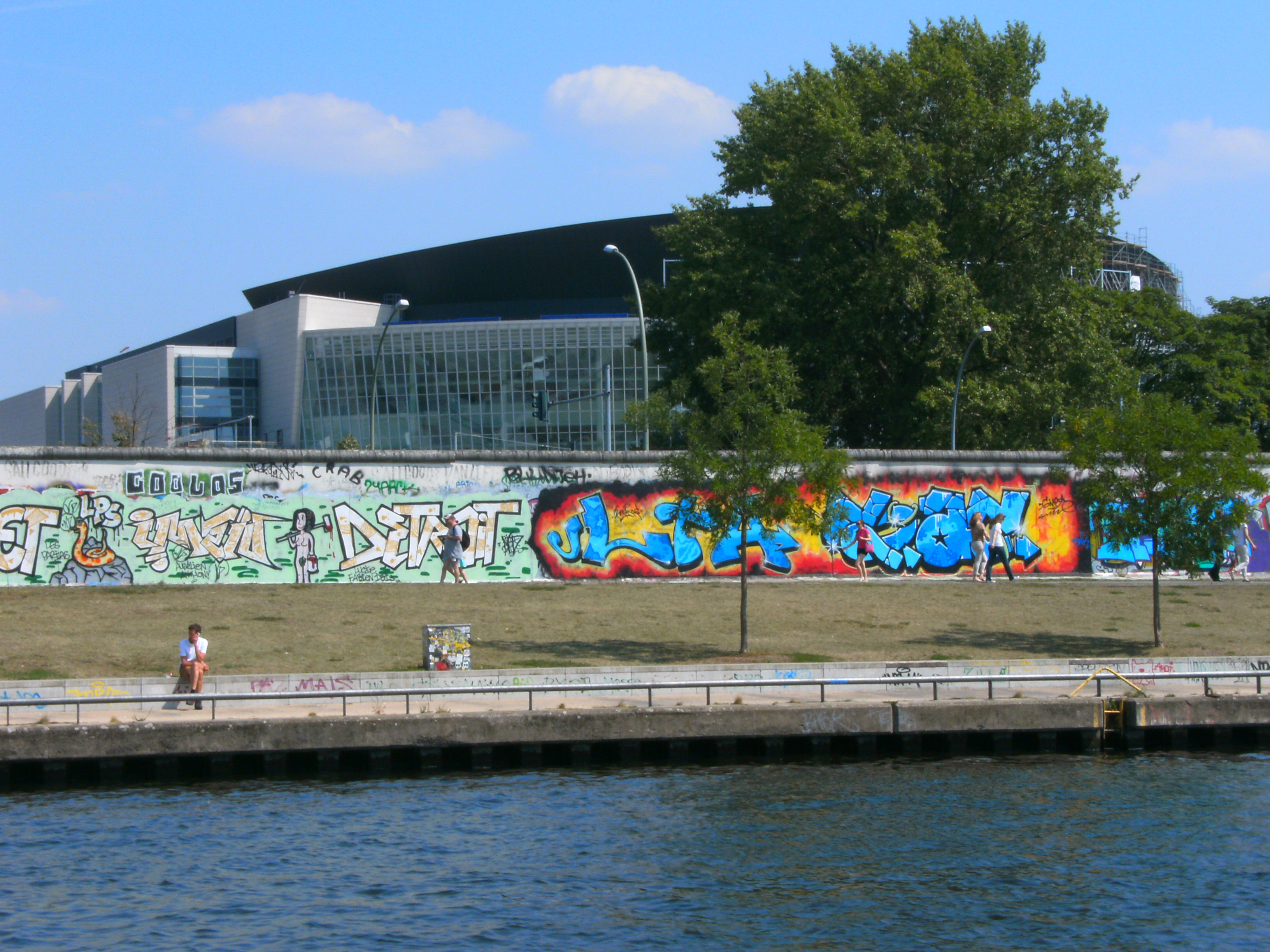 Berlin, Germany, river Spree: Berlin wall, East Side Gallery, rear side.